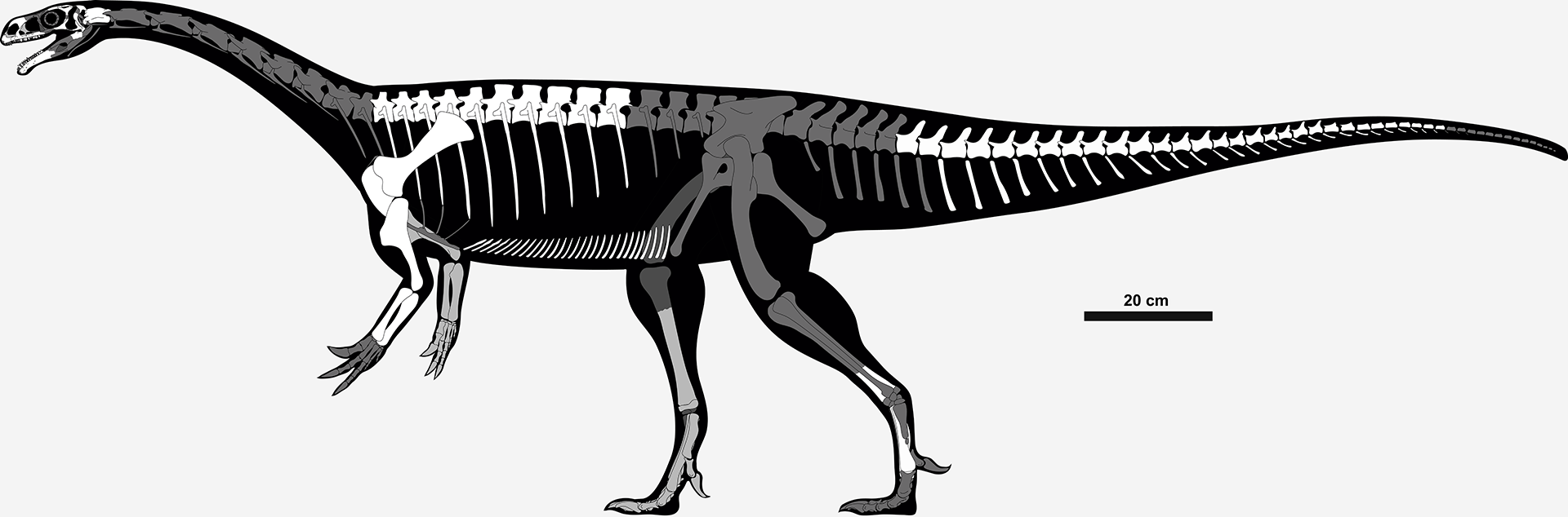 Skeletal reconstruction of Unaysaurus tolentinoi